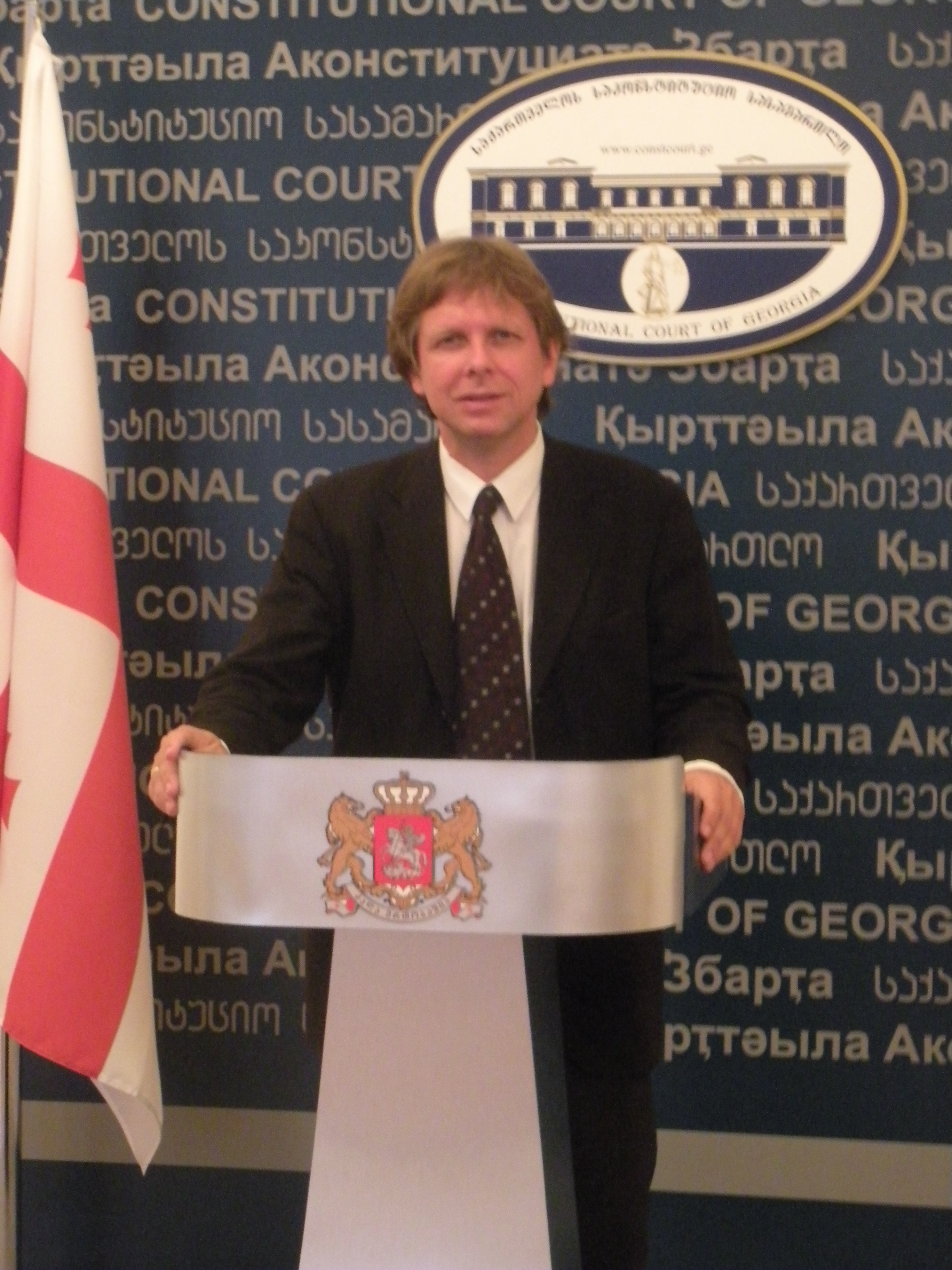 Bernd Heinrich (German jurist and professor) in Batumi, Georgia, 2010